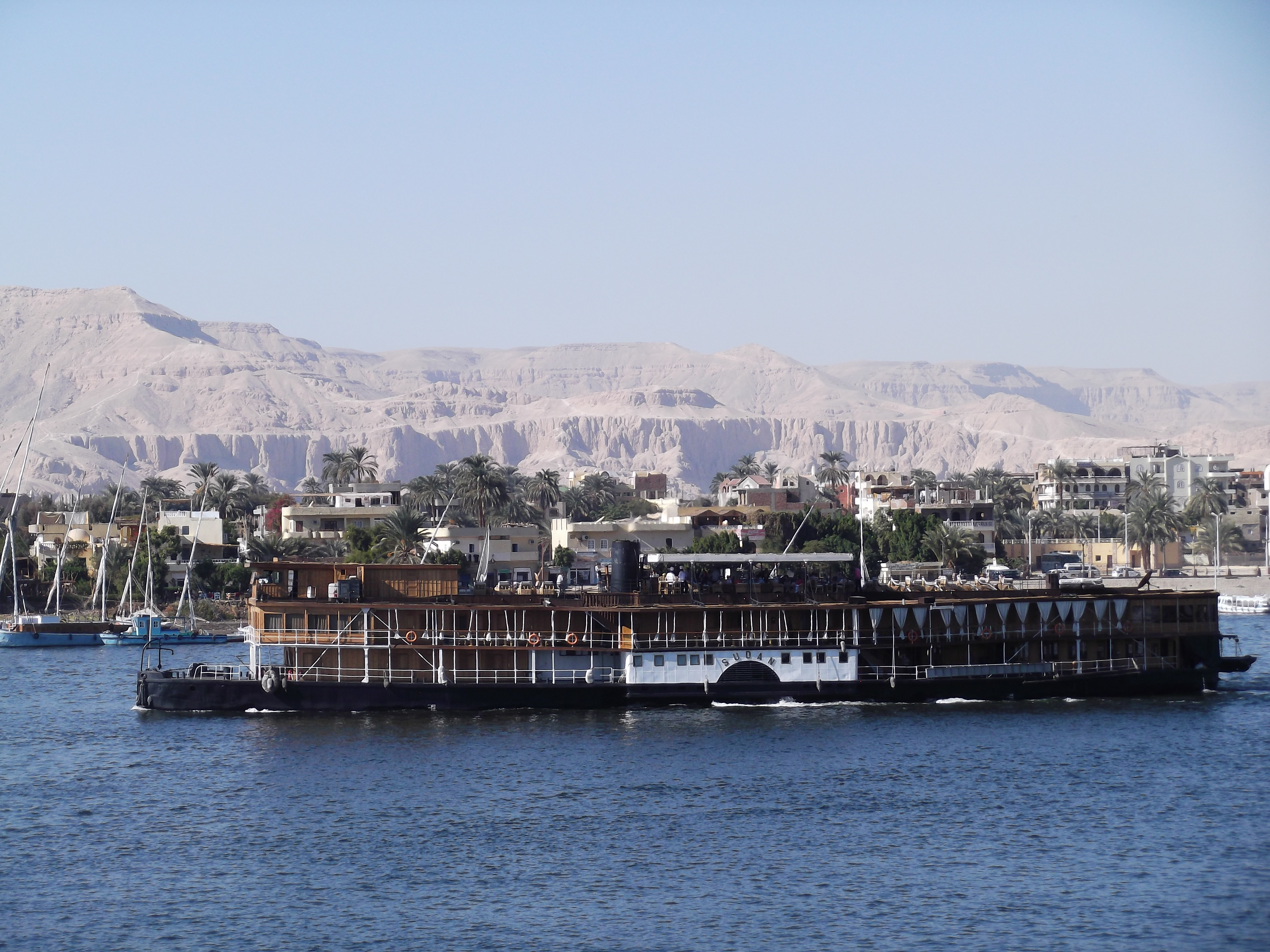 PS Sudan, on the Nile river at Luxor, December 2011